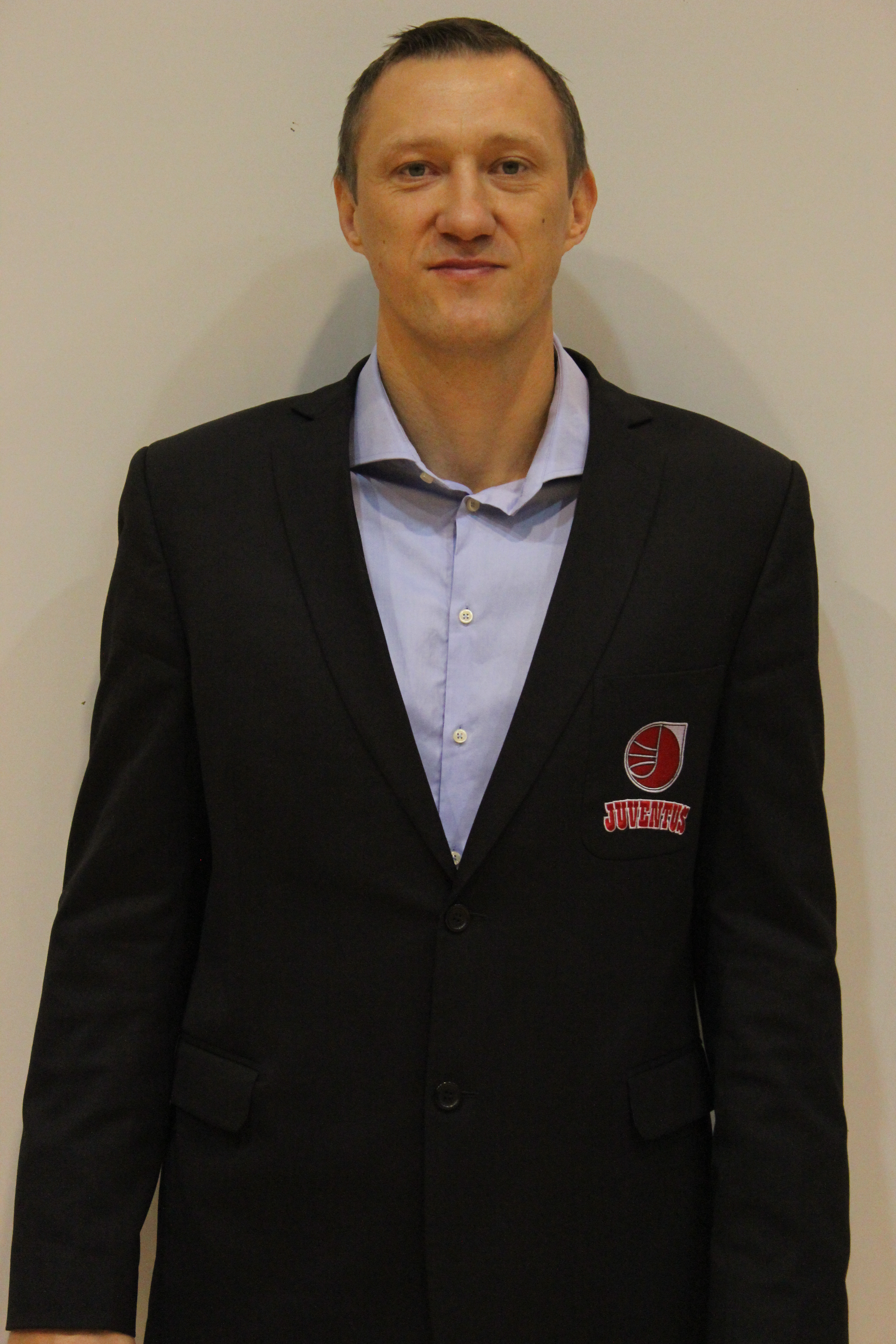 Photo of BC Juventus coach Žydrūnas Urbonas during the 2014-15 season.